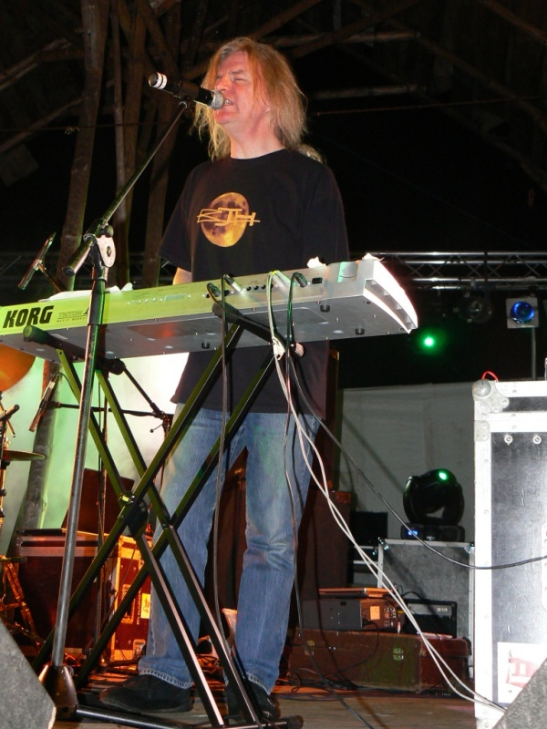 Progressive rock keyboardist John Young performing at "Baltic Progressive Festival" (2007) in Kernavė, Lithuania.